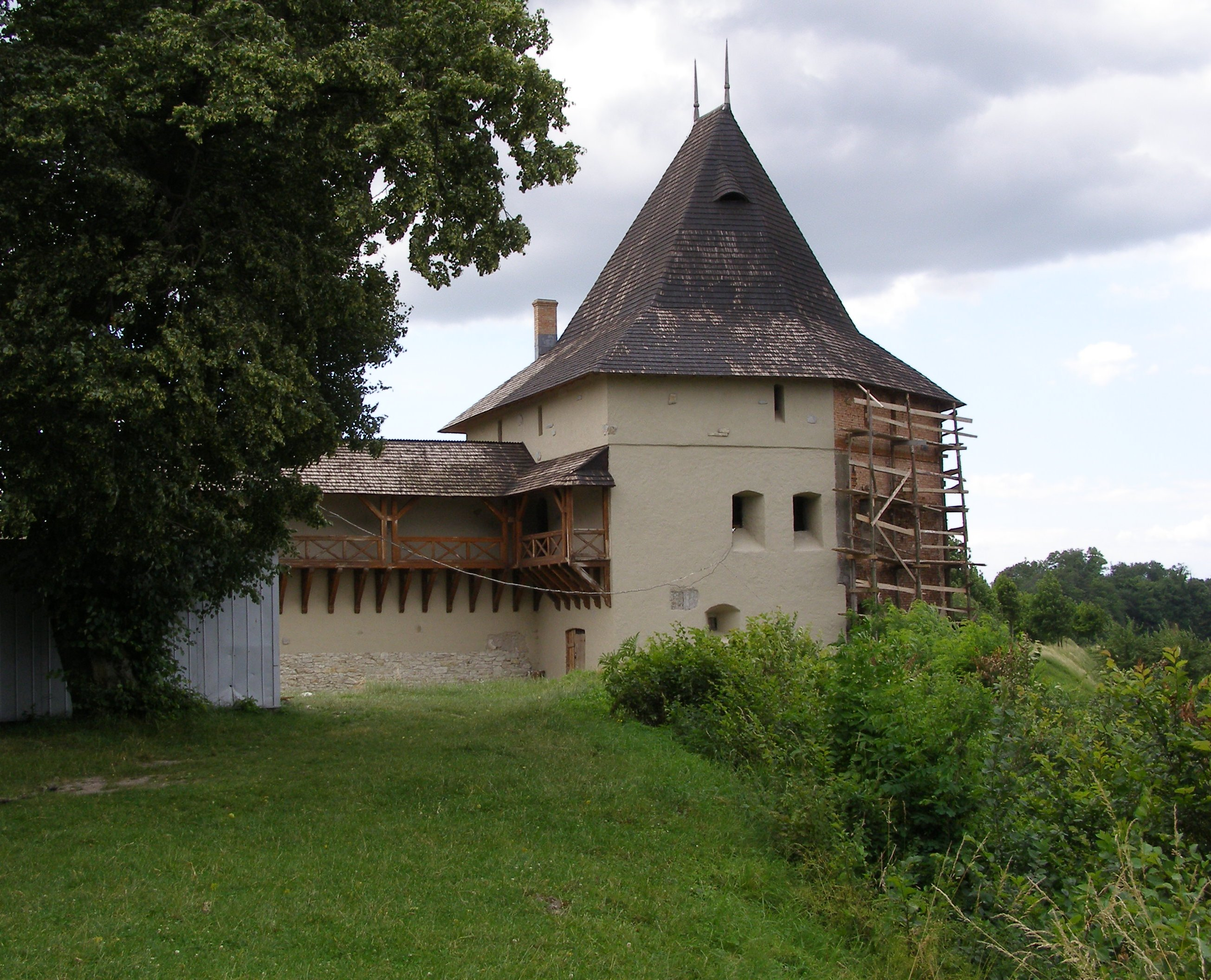 Castle in Halych, Ivano-Frankivsk Oblast, western Ukraine